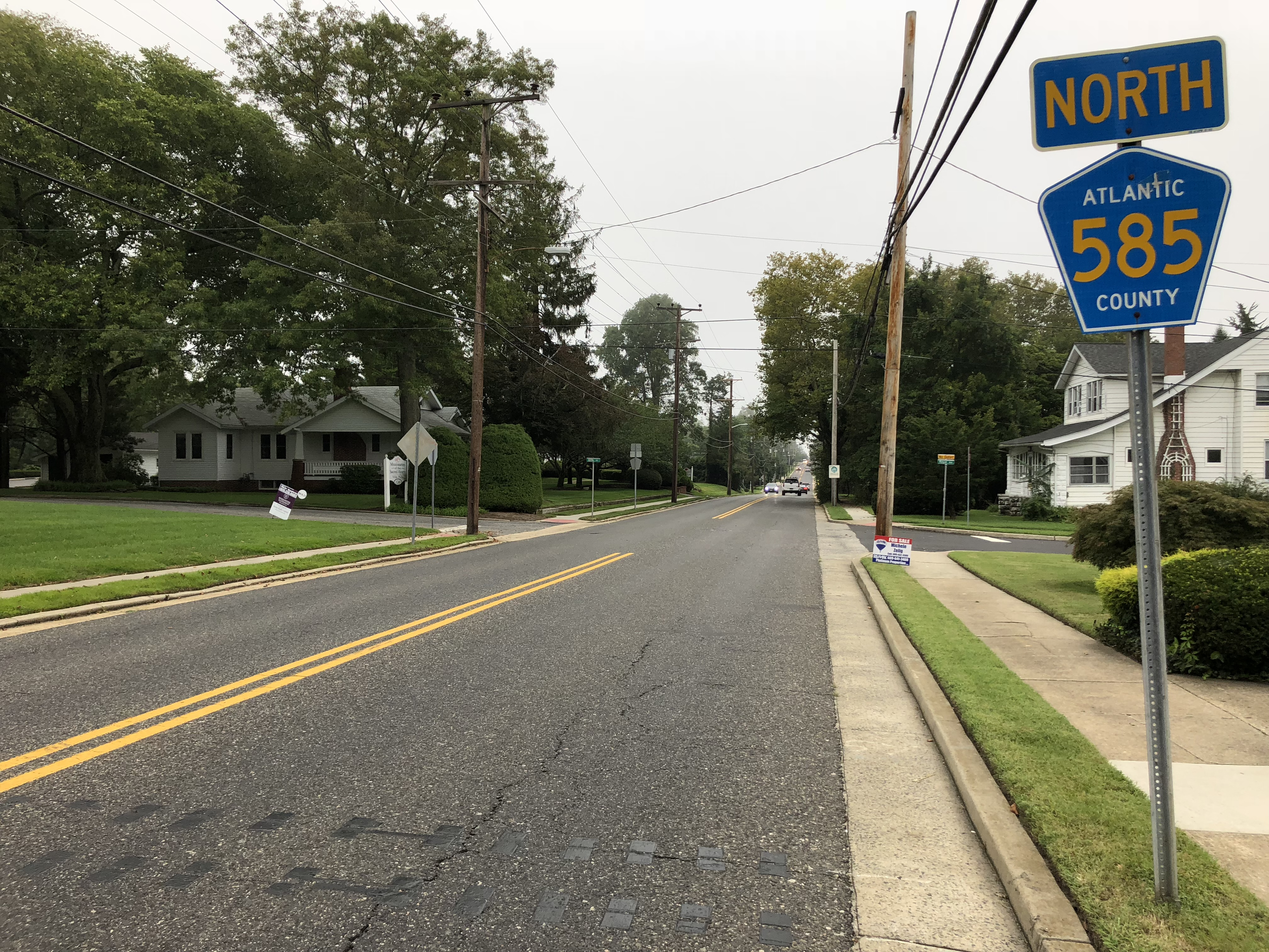 View north along Atlantic County Route 585 (Shore Road) just south of Royal Avenue in Linwood, Atlantic County, New Jersey